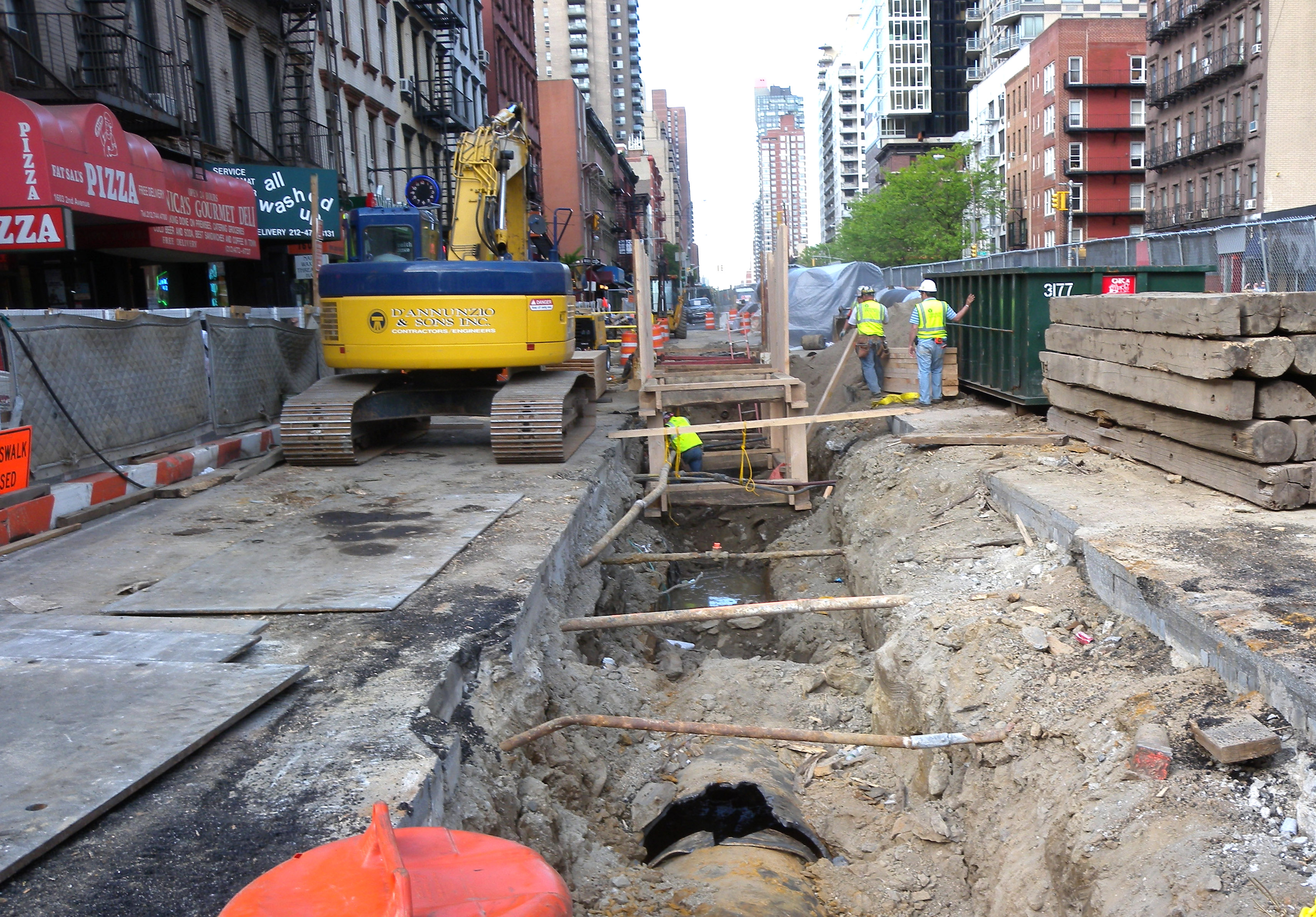 Looking north from 83rd Street at early stage of building the 2nd Avenue line on a cloudy afternoon.